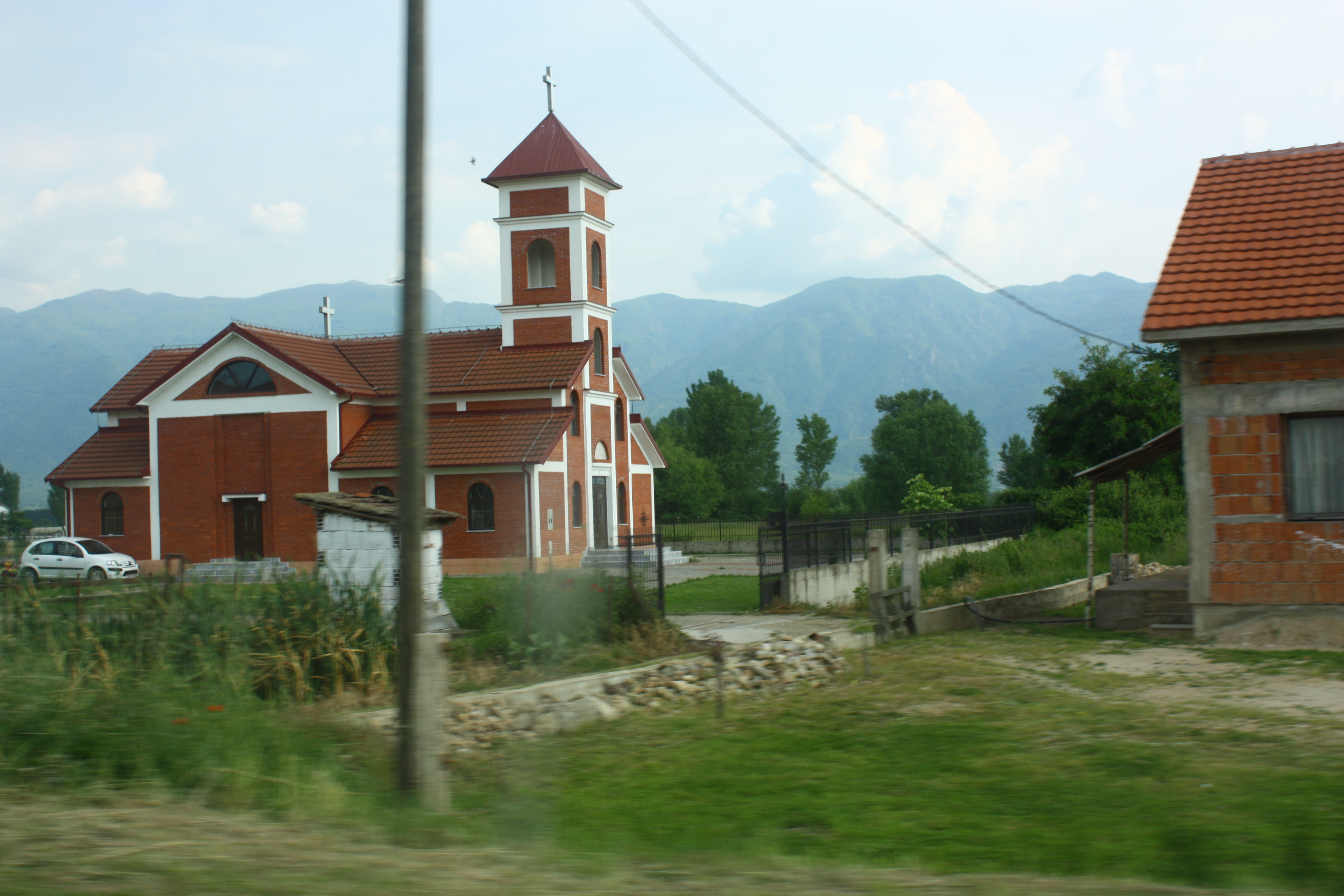 St. Nicholas Catholic Church in Sekirnik, Macedonia This image is uploaded as part of the picture contest Wiki Loves Cultural Heritage in Macedonia 2013. English | македонски | +/−